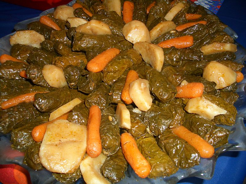 Photo of waraq al-'ainib.